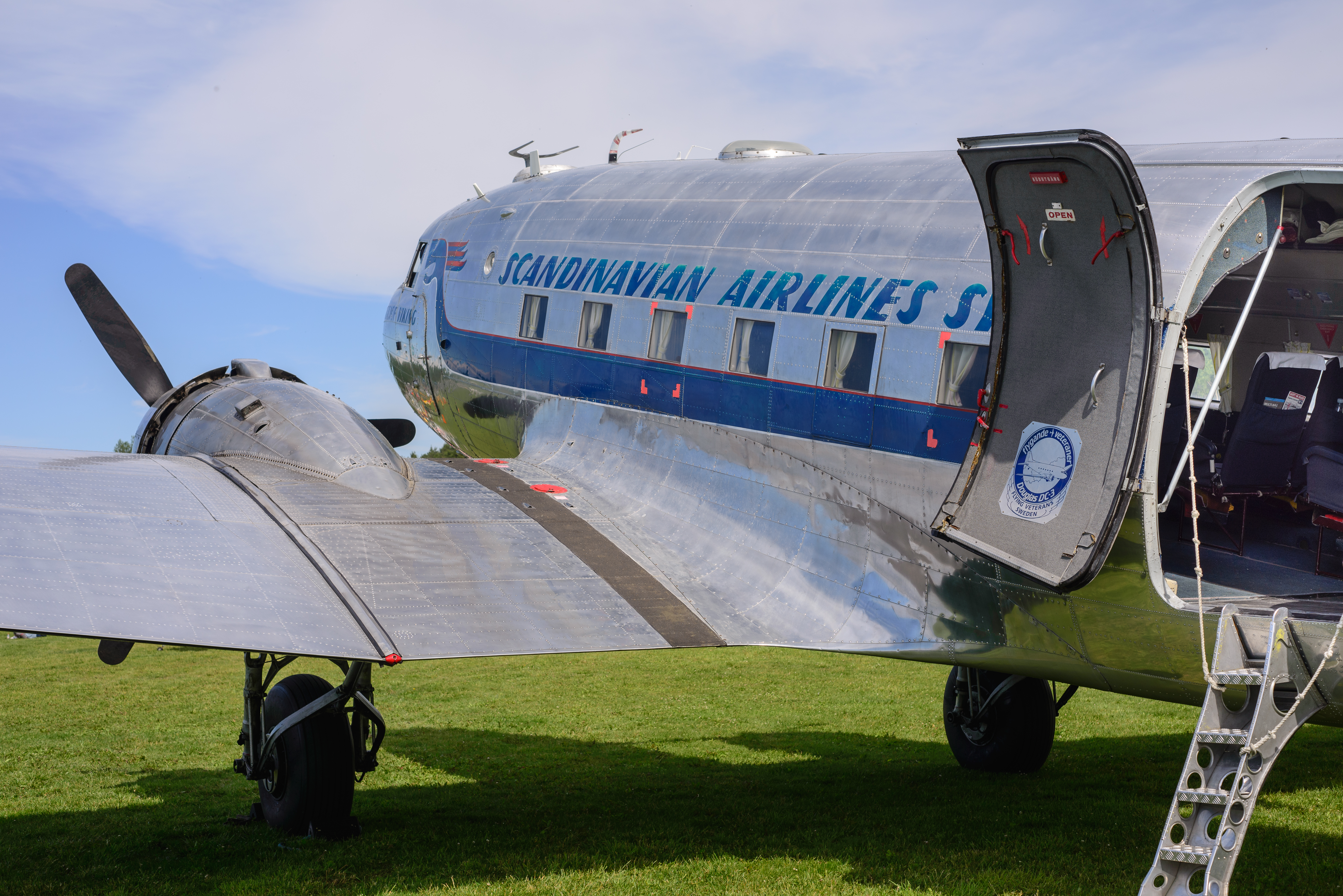 DC3 (SE-CFP) at Skå airfield, Stockholm County.